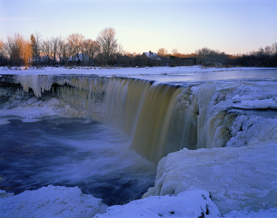 Waterfall Jägala in Estonia.